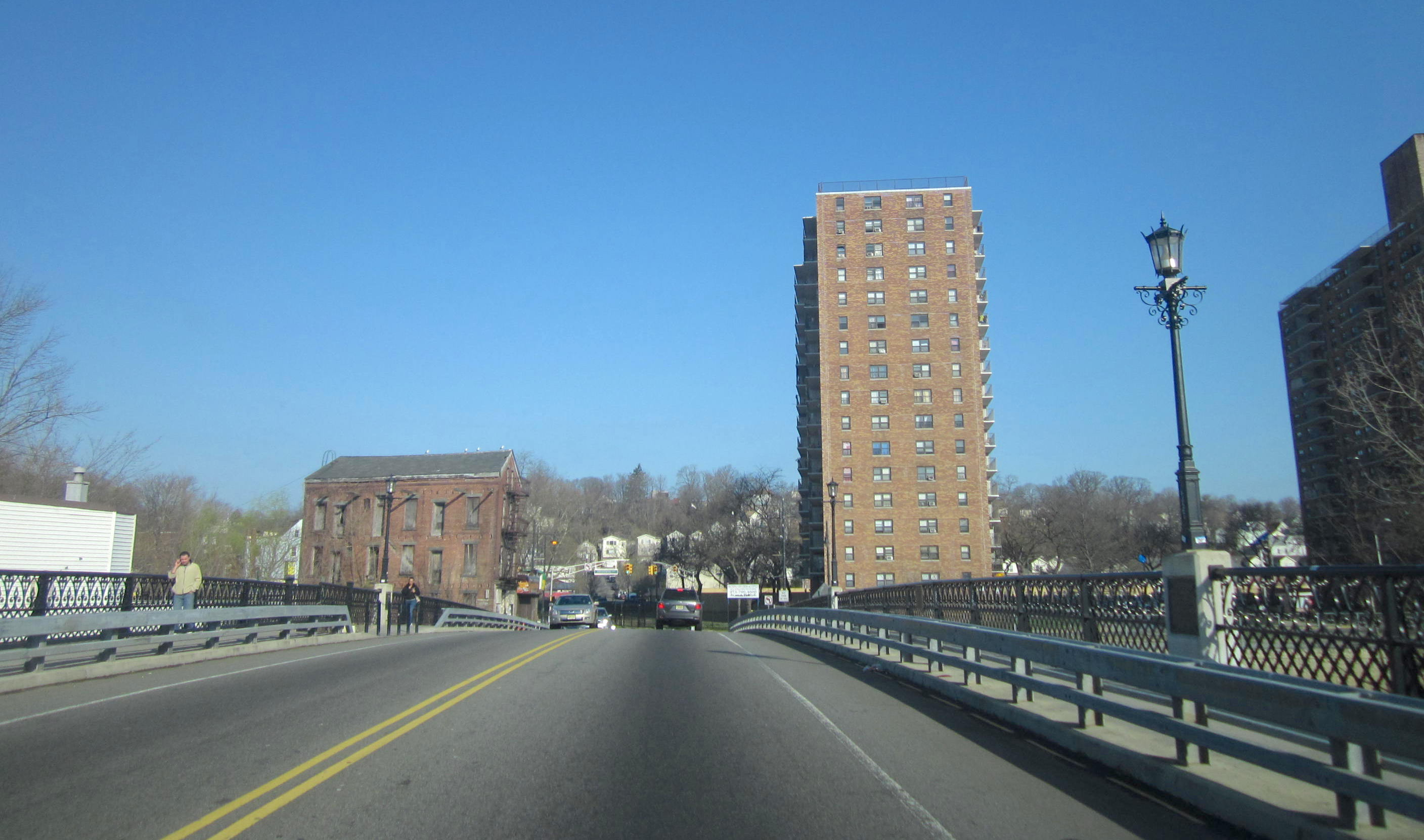 Roadway view of the West Broadway Bridge (also known as the Concrete–Metal Bridge), in Paterson, New Jersey, looking northwest